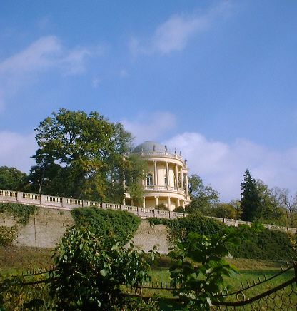 The Belvedere on the Klausberg, Potsdam, from the Mulberry Alley.